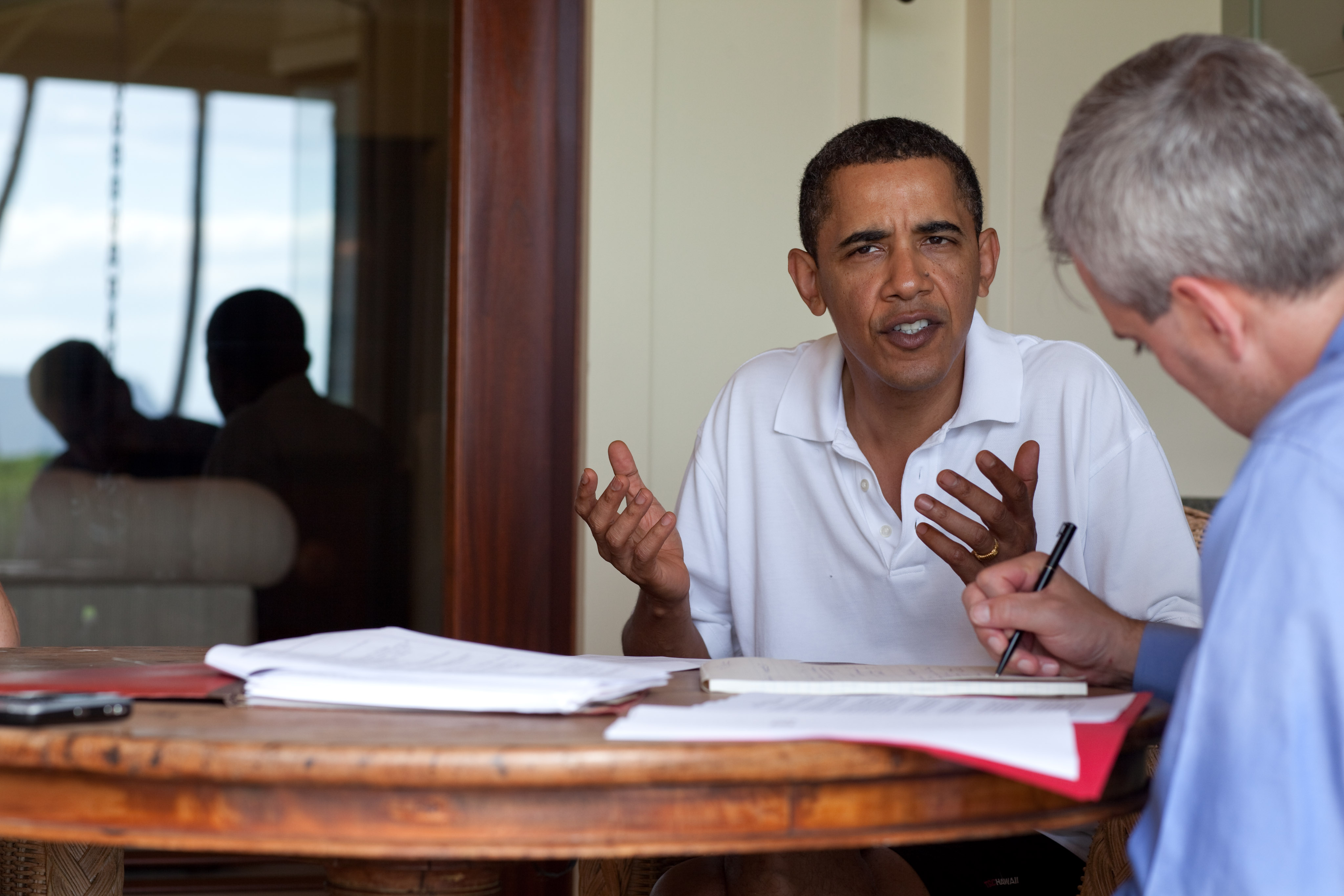 President Barack Obama meets with National Security Council chief of staff Denis McDonough about updates concerning the attempted terrorist attack of an airliner on Christmas Day. This briefing occurred Dec. 29, 2009, in Kailua, Hawaii. The President has received updates throughout his vacation since the incident. (Official White House photo by Pete Souza) This official White House photograph is in the public domain from a copyright perspective, so while restrictions such as personality or privacy rights may apply, in general, manipulations are allowed.